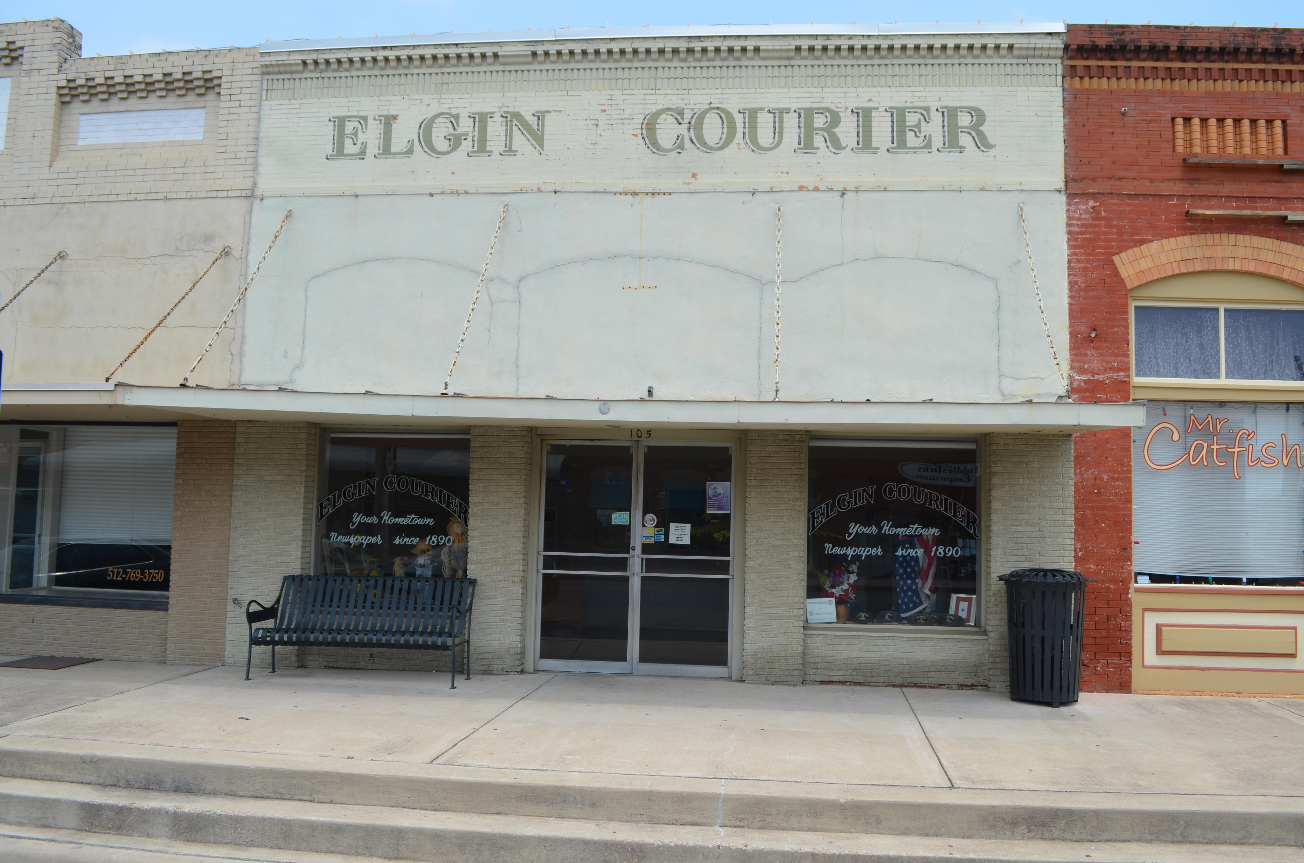 The offices of the Elgin Courier, in Elgin Texas